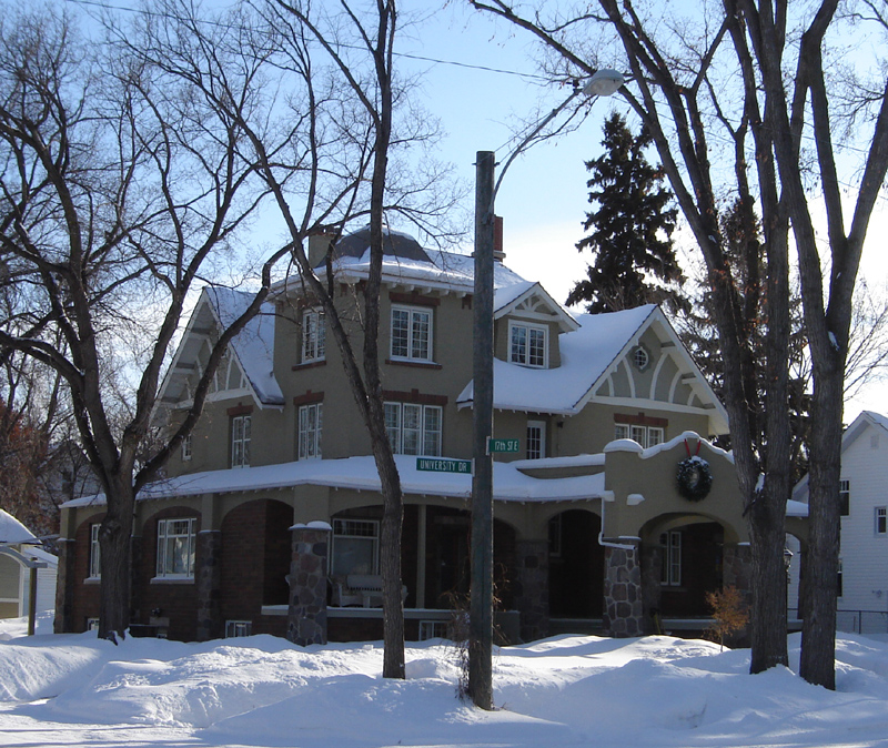 Saskatoon Heritage Society Protected Houses Pettit / Sommerville Residence Nutana, Nutana SDA, Saskatoon, Saskatchewan, Canada